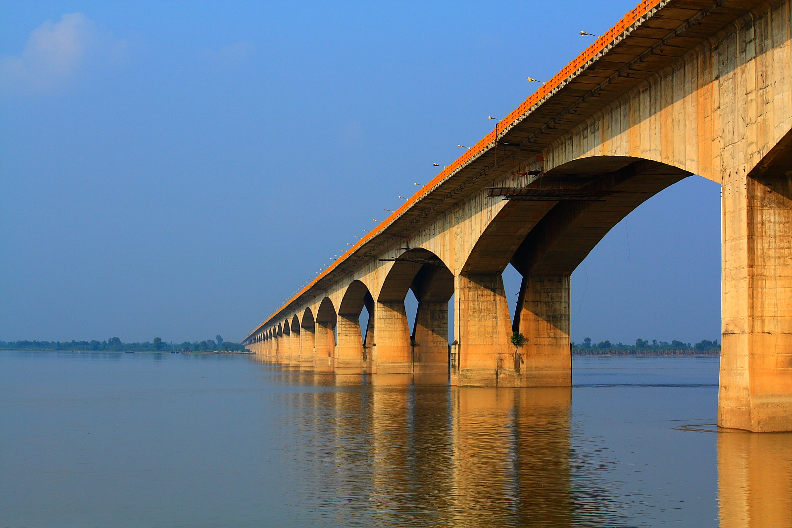 It is the longest single river bridge in the world. The 5.575 Km long architecture of Mahatma Gandhi Setu consists 46 spans of 121.065 Meter each and 2 spans of 63.53 Meter at each end. The deck provides for a 7.5M wide 2 lane roadway for IRC class 70 R loading with 2M wide footpaths on either side. The cantilever segmental construction method is adopted to construct this mega bridge. This bridge was built by Gammon India Limited. It was innaugurated by the then Prime Minister, Indira Gandhi in 1982.